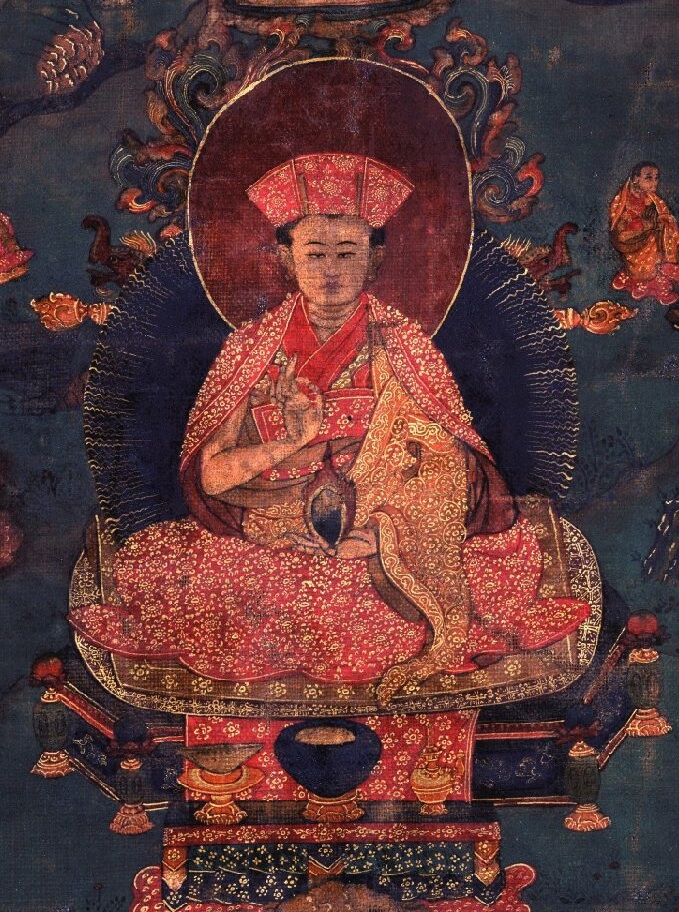 Tashi Peltsek, b.1359 - d.1424, 9th Abbot of Taklung Tang Monastery, Tibet